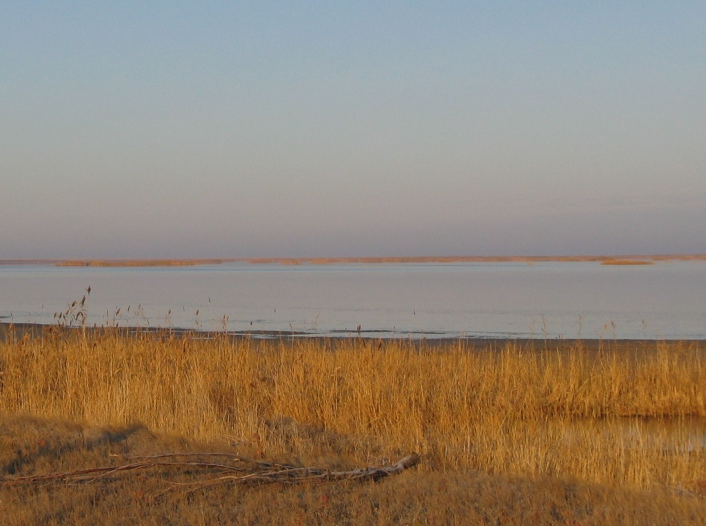 Lake Aike from Kazakhstan side